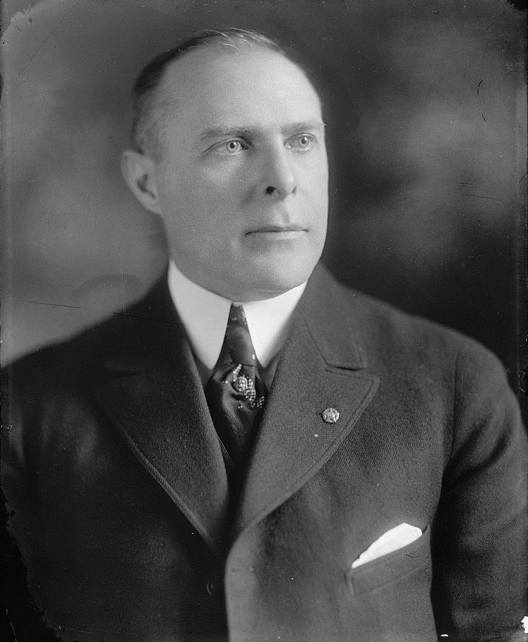 Roy G. Fitzgerald, congressman from Dayton, Ohio